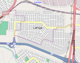 This map of Langa, Cape Town was created from OpenStreetMap project data, collected by the community. This map may be incomplete, and may contain errors. Don't rely solely on it for navigation.